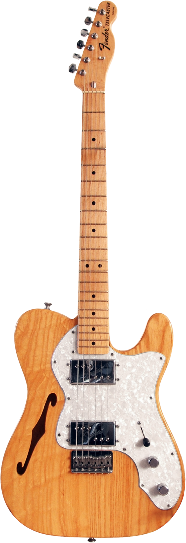 A Fender '72 Telecaster Thinline electric guitar